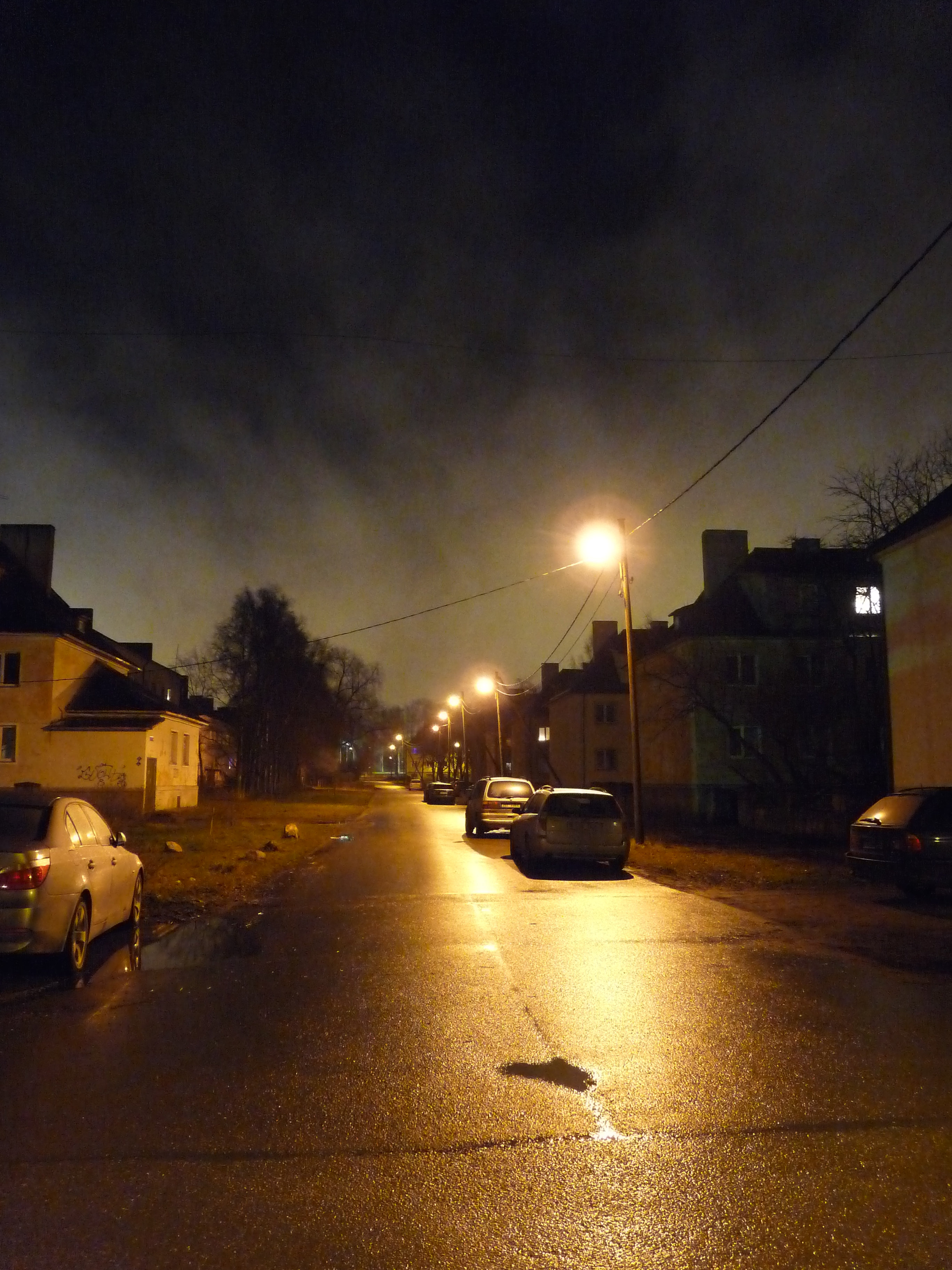 Killustiku street in Tallinn, Estonia